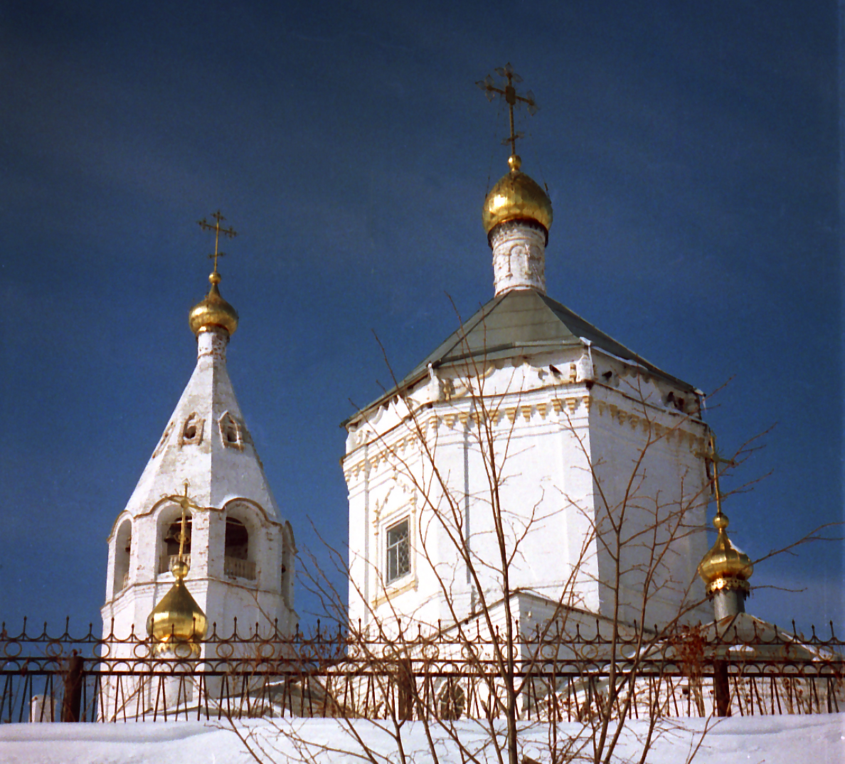 Cheboksary, Church of the Theotokos of Vladimir.